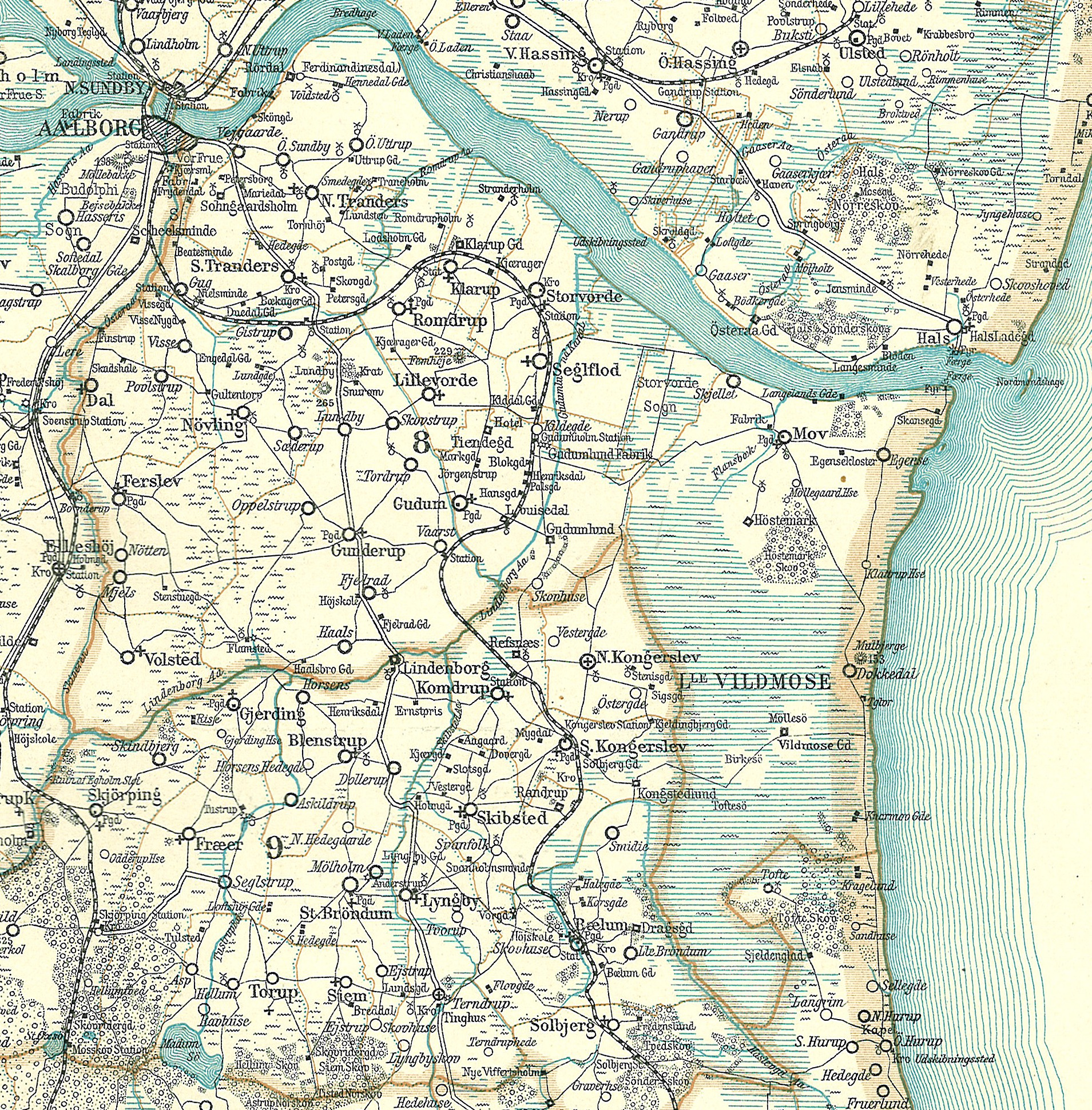 Map of Hjørring- and Aalborg Countys in Denmark